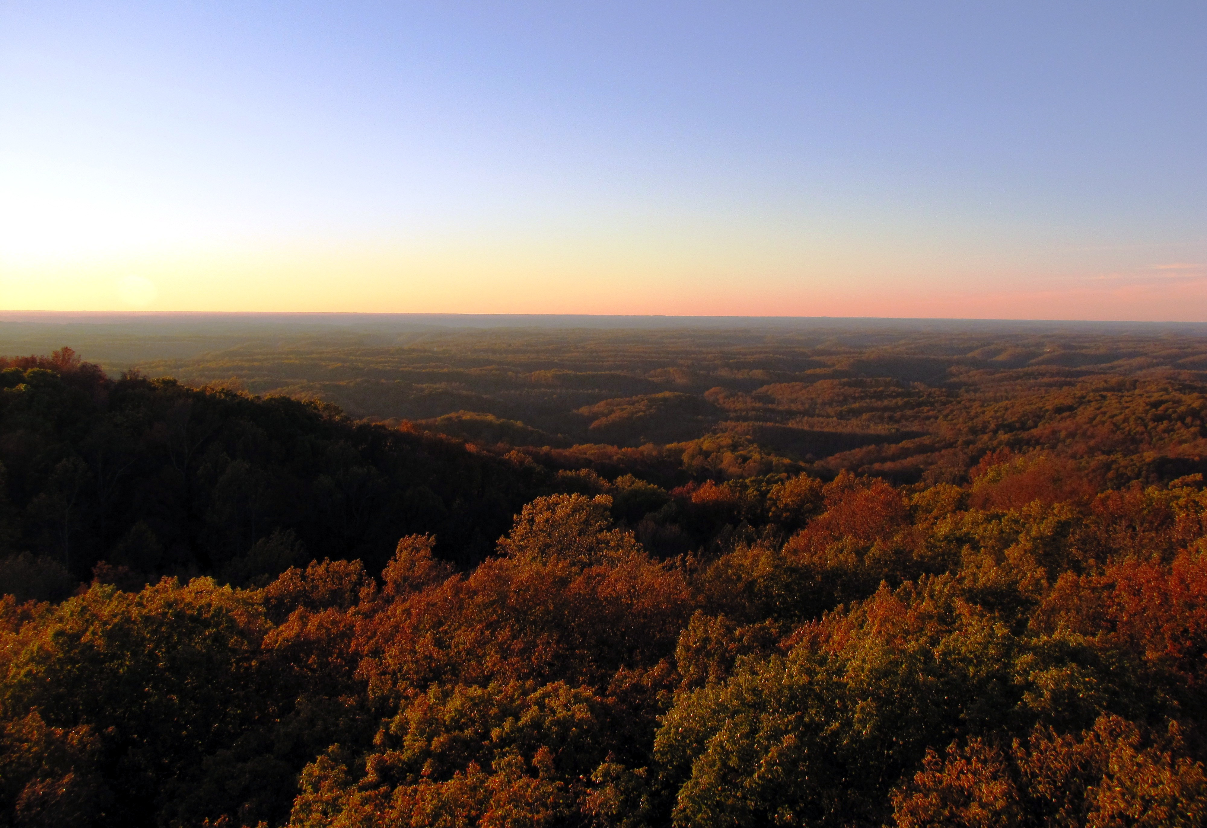 View looking northwest across the northern Highland Rim from the Goodpasture Mountain fire tower at Standing Stone State Park in Overton County, Tennessee, USA.